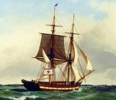 Two-masted full-rig sailing ship Der Kurfürst